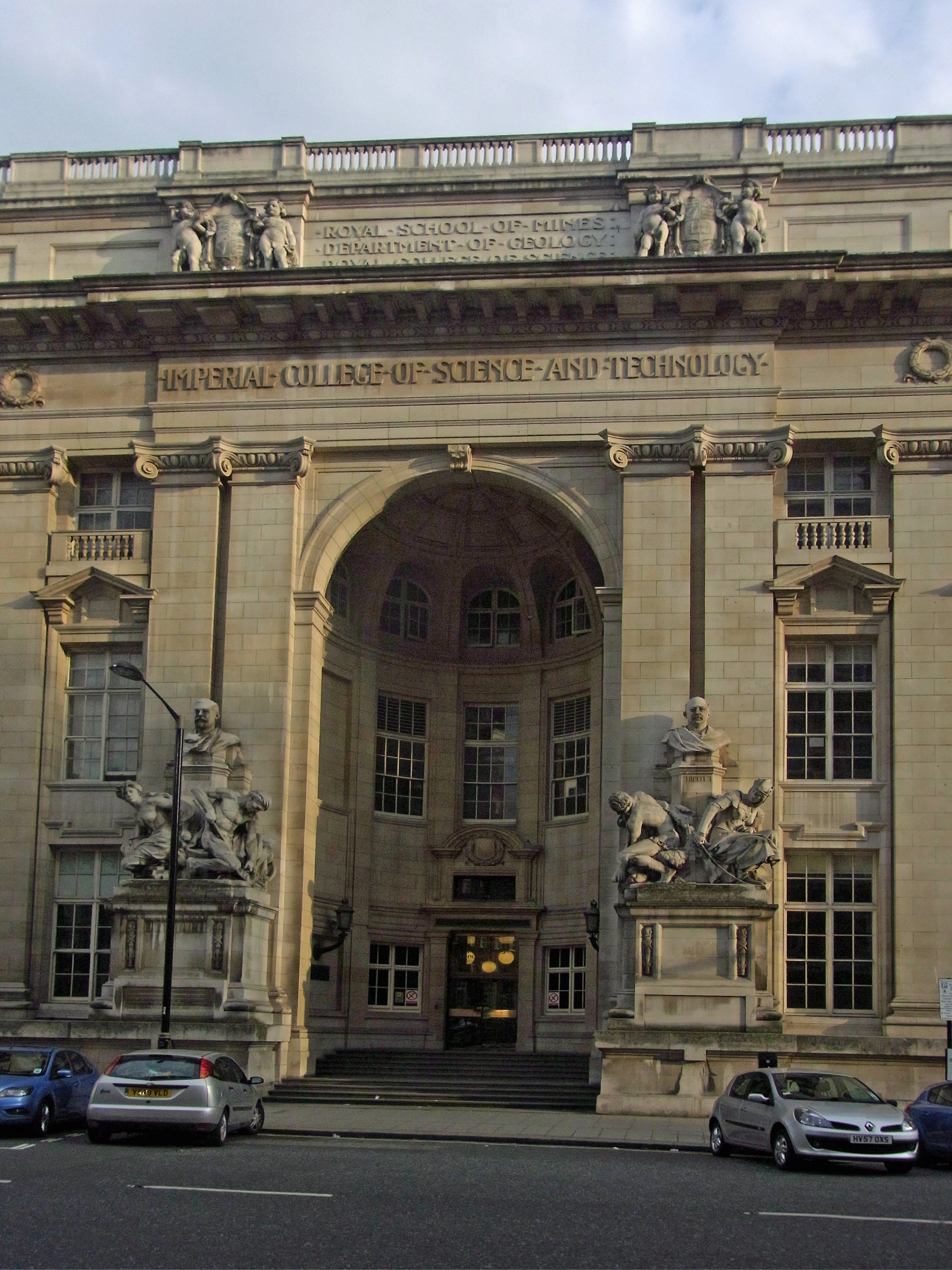 Imperial College London, Royal School of Mines entrance